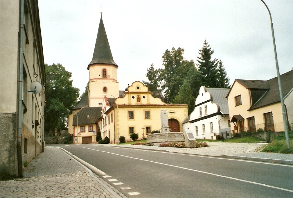 Nýrsko town in Klatovy district, Czech Republic. A view on the St Thomas church.